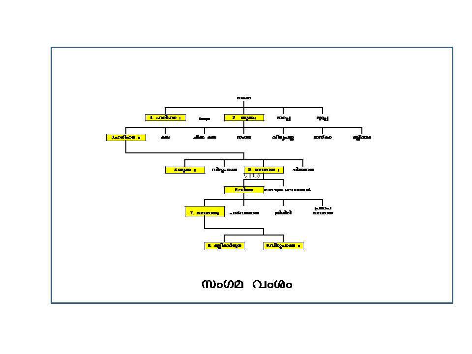 Sangama dynasty of Vijayanagara Empire